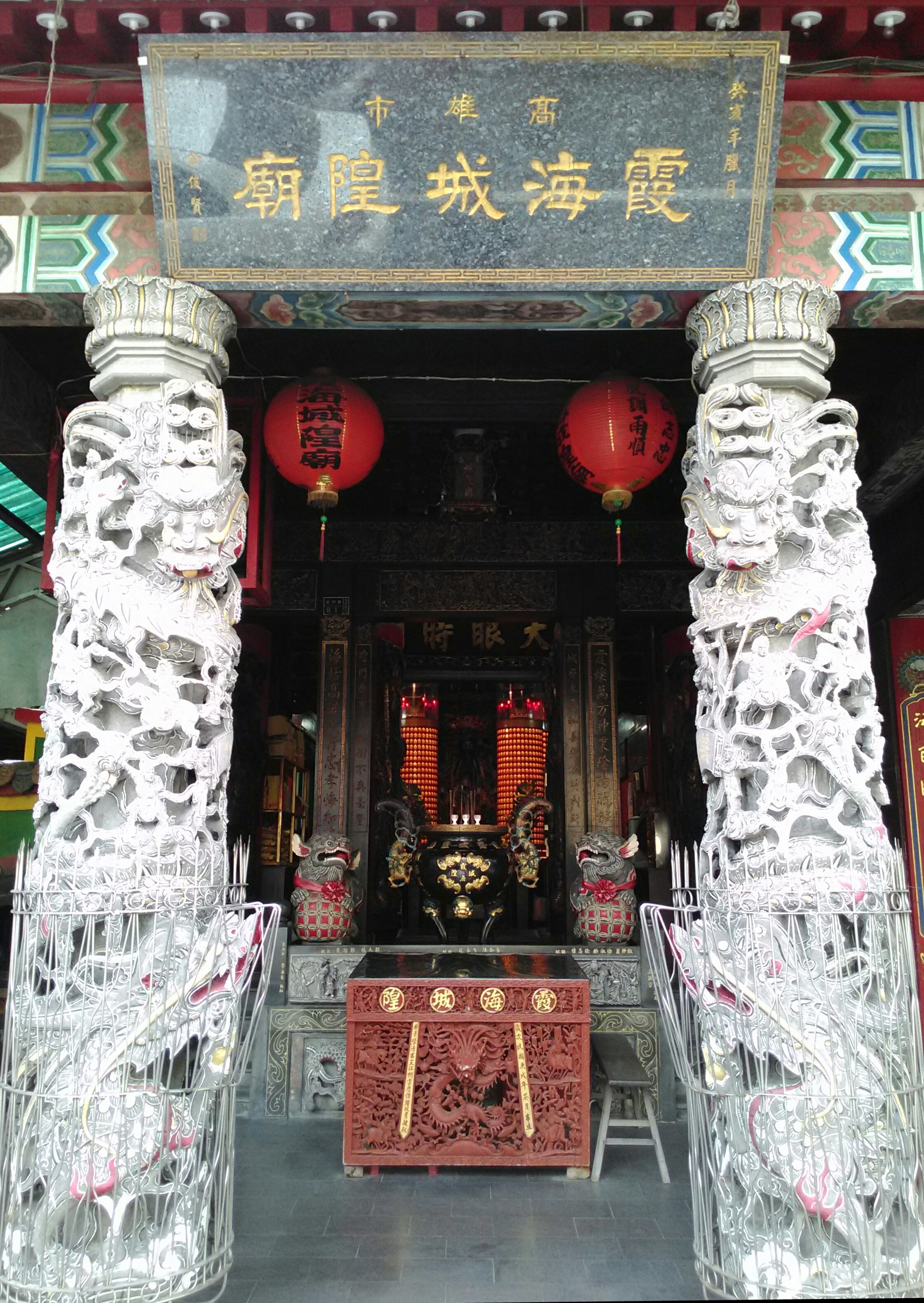 高雄市霞海城隍廟